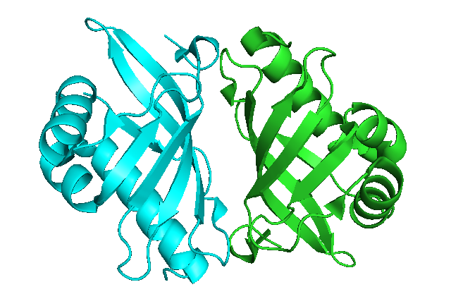 Structure of ketosteroid isomerase homodimer. Based on PyMOL rendering of PDB 3VSY